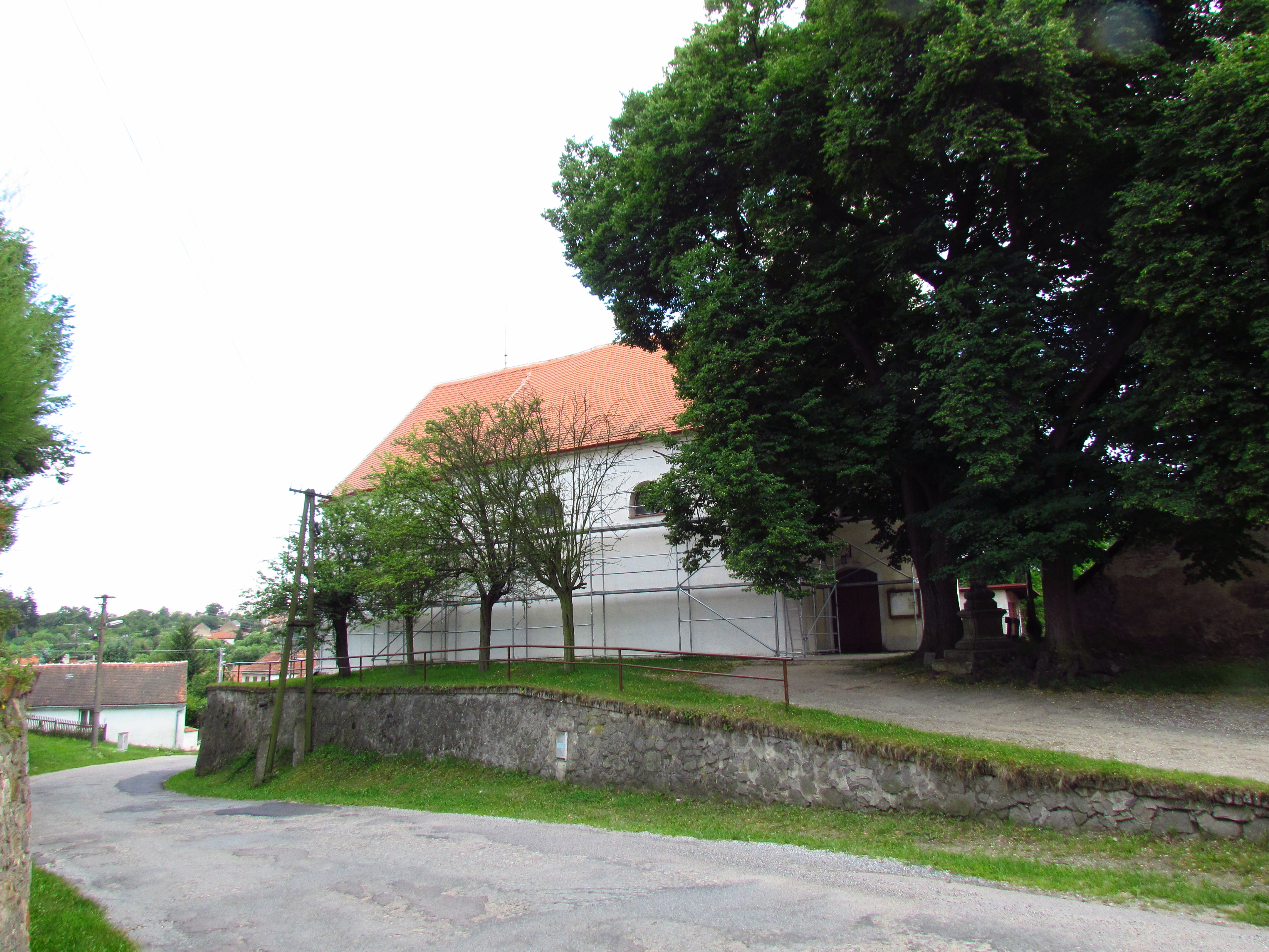 Overview of church of Saint Martin in Biskupice, Třebíč District.